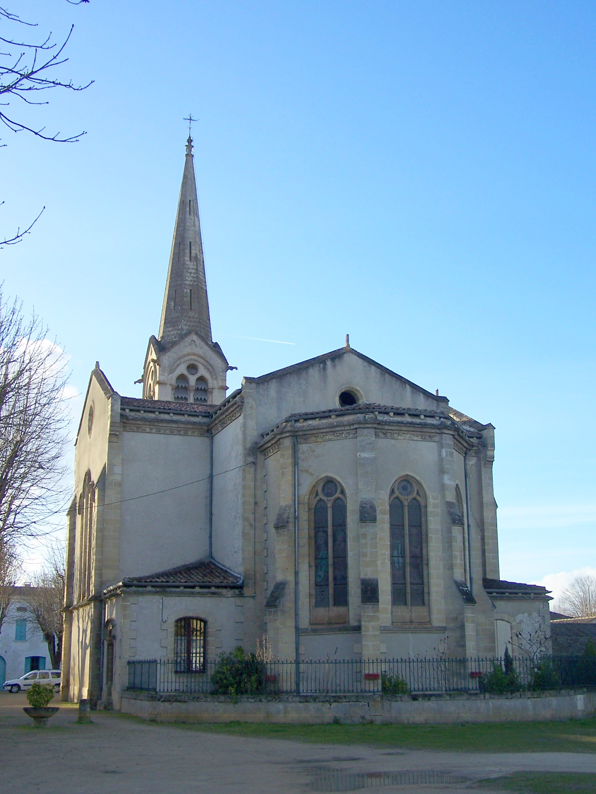 Apsis of the church of Villandraut (Gironde, France)